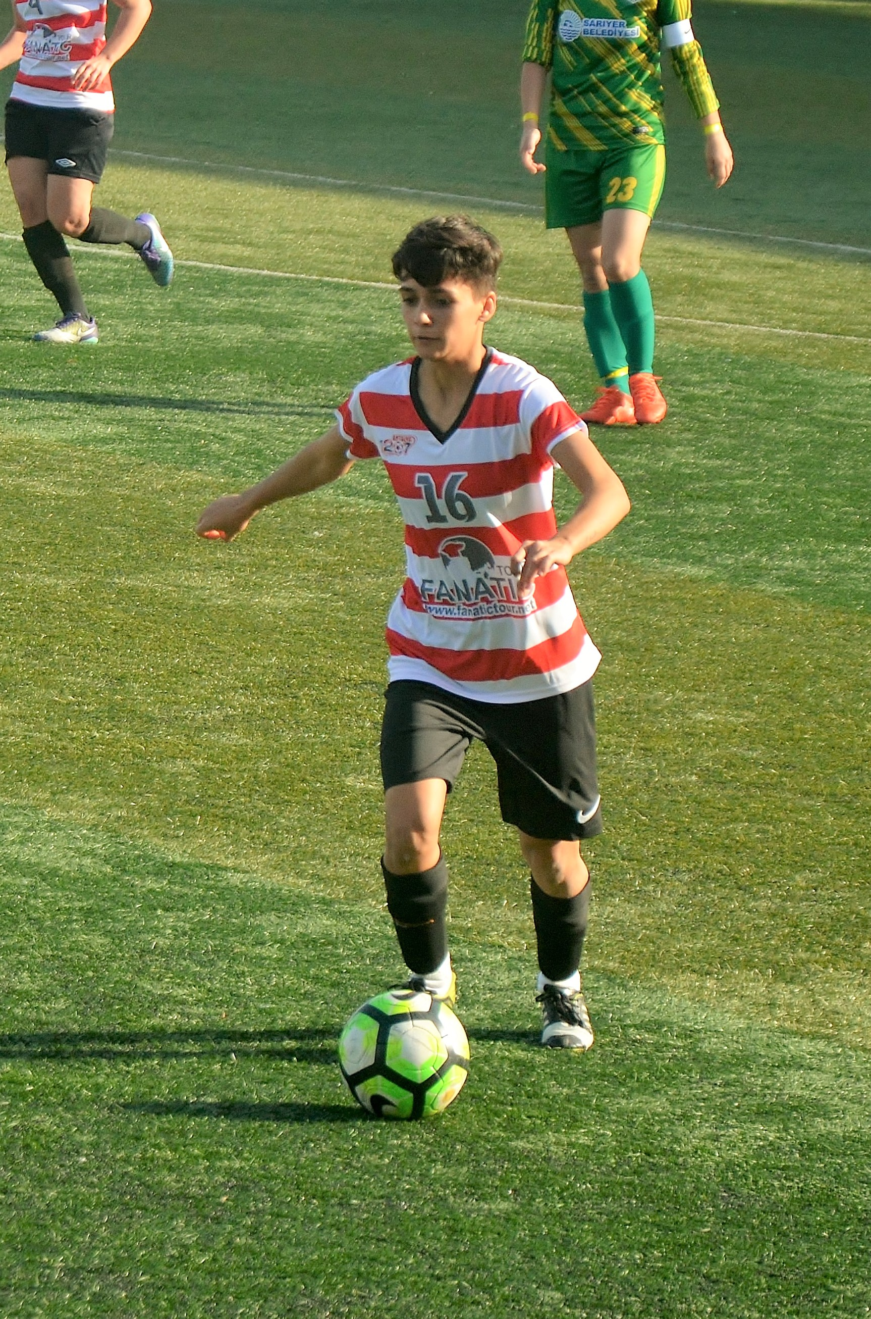 Efsane Nur Düzparmak playing for 1207 Antalya Döşemealtı Belediyespor in the away match against 2017-18 Turkish Women's First League against Kireçburnu Spor.